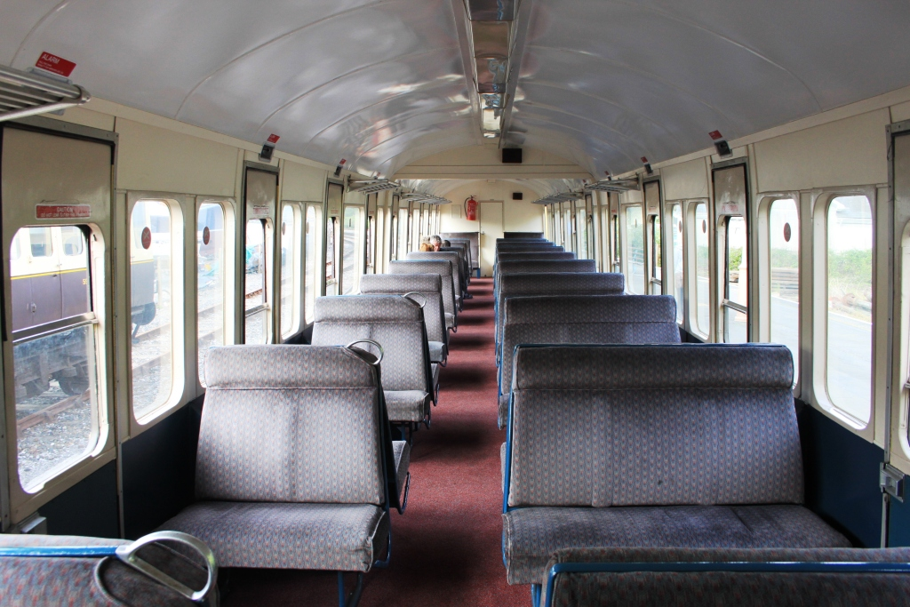 Inside former British Rail Class 116 DMU trailer 59004 at Kingswear station. It is now used as a locomotive-hauled coach on the Dartmouth Steam Railway.